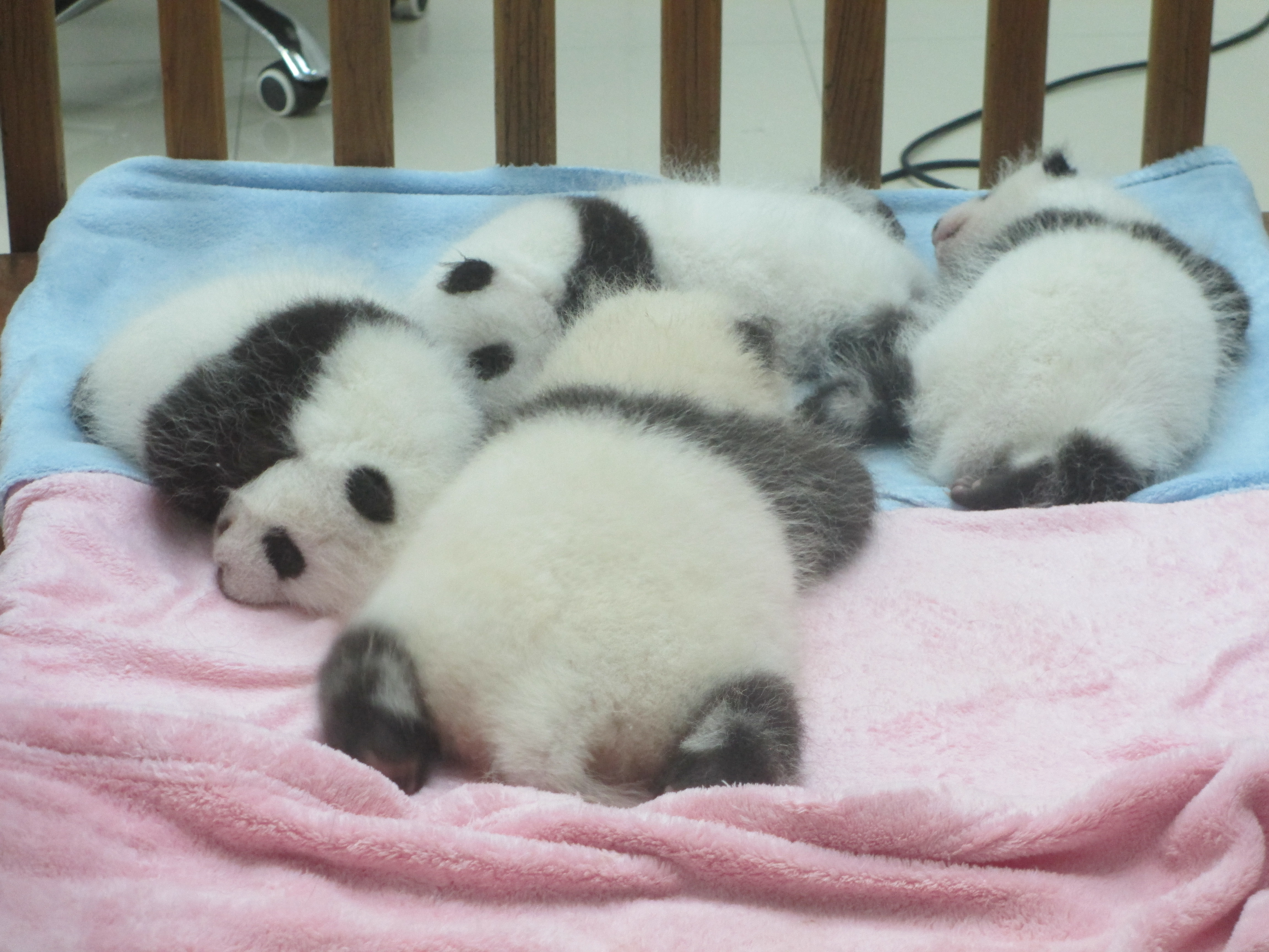 Pandas in Chengdu China